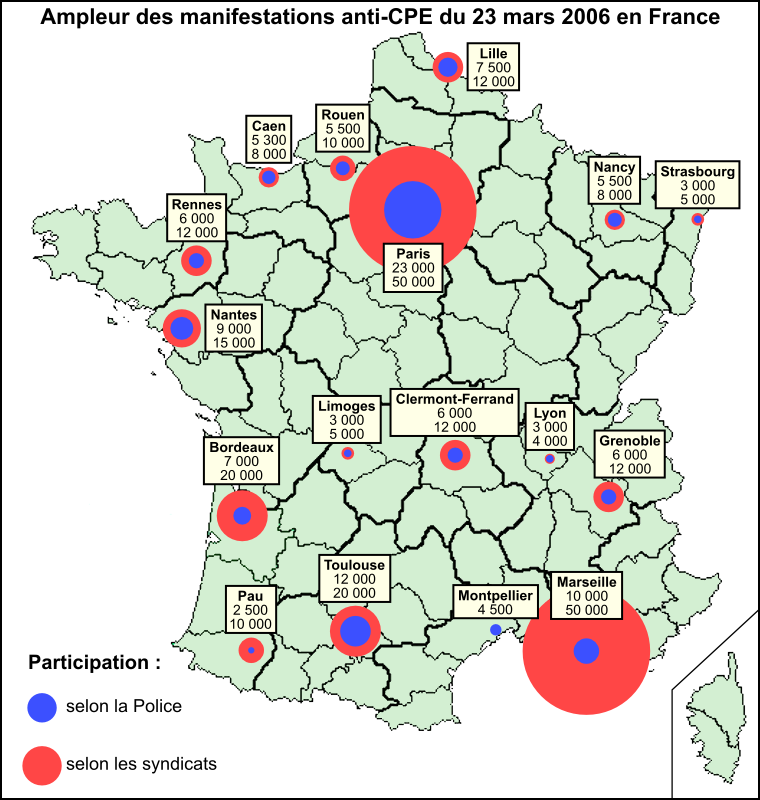 Map of the labour protests the 23rd of March 2006 against the CPE in France, showing the main cities. Total participation for this day : 220 000 (Police) – 450 000 (syndicates) Note : the size of the circles is proportional.